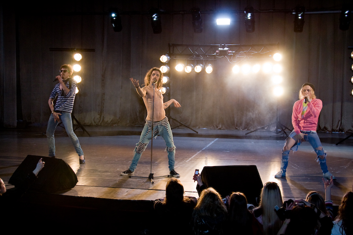 Quest Pistols (Musical group from Ukraine)